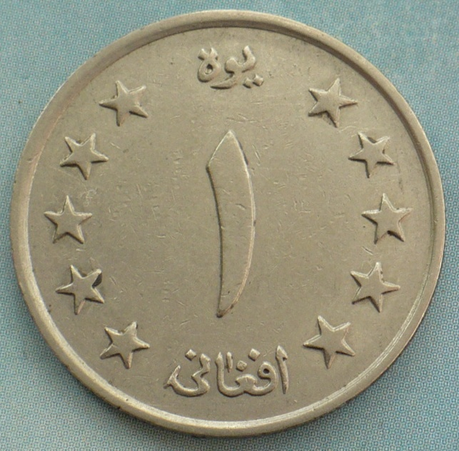 Coin 1 Afgani